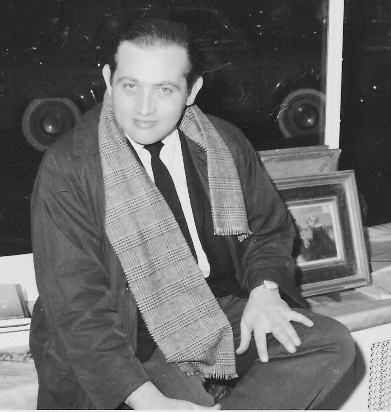 Stuart Kaufman (1926-2008) shown here inside of then Gallery 52, West Orange, New Jersey. 1965.